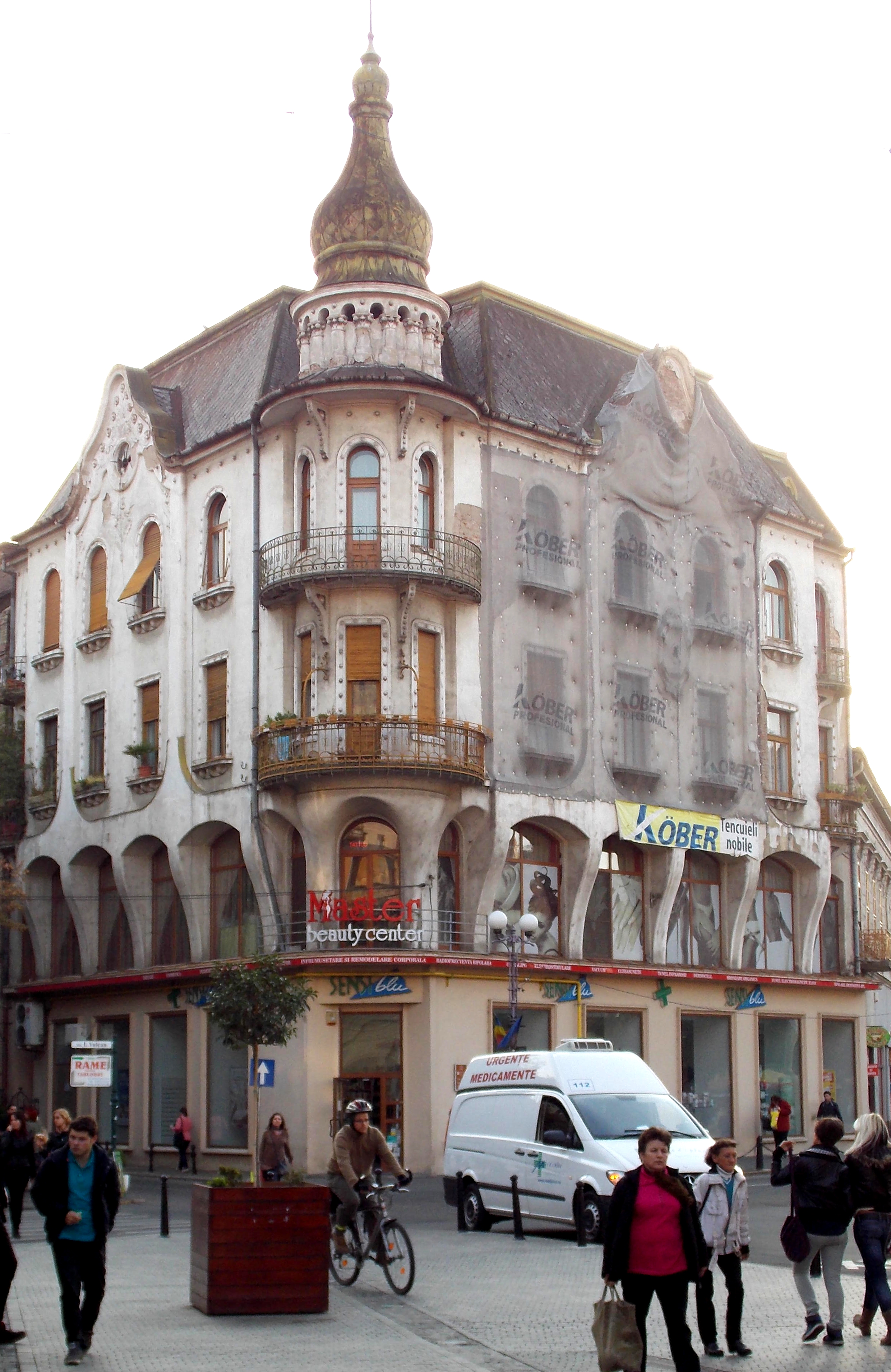 Poynar House - Oradea